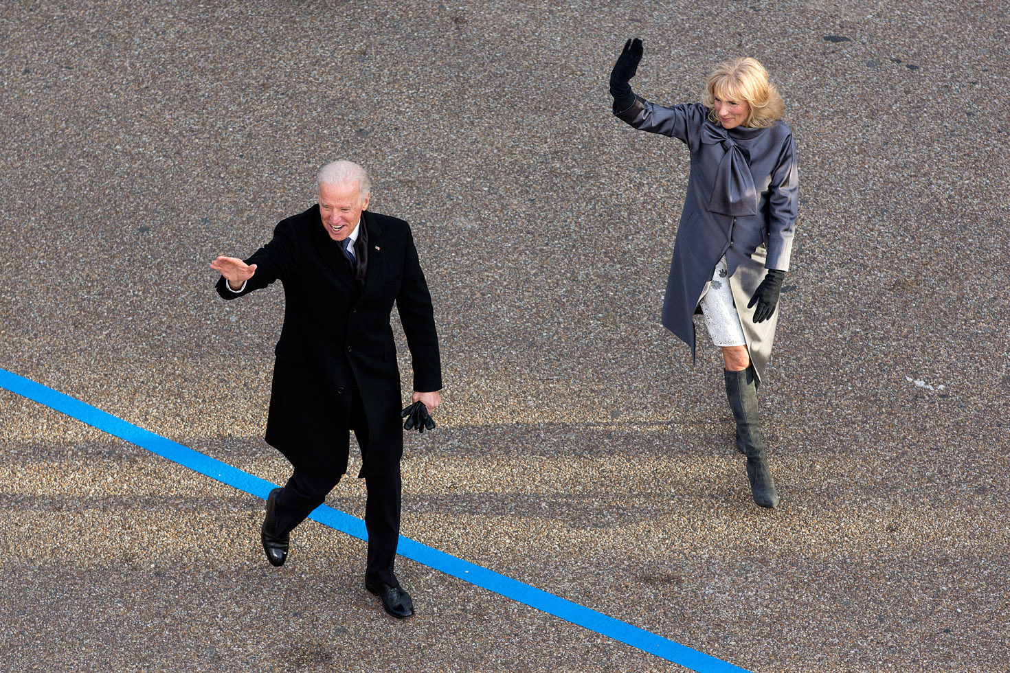 United States Vice President Joe Biden and Jill Biden walk in the inaugural parade along Pennsylvania Avenue in Washington, D.C. on 21 January 2013.